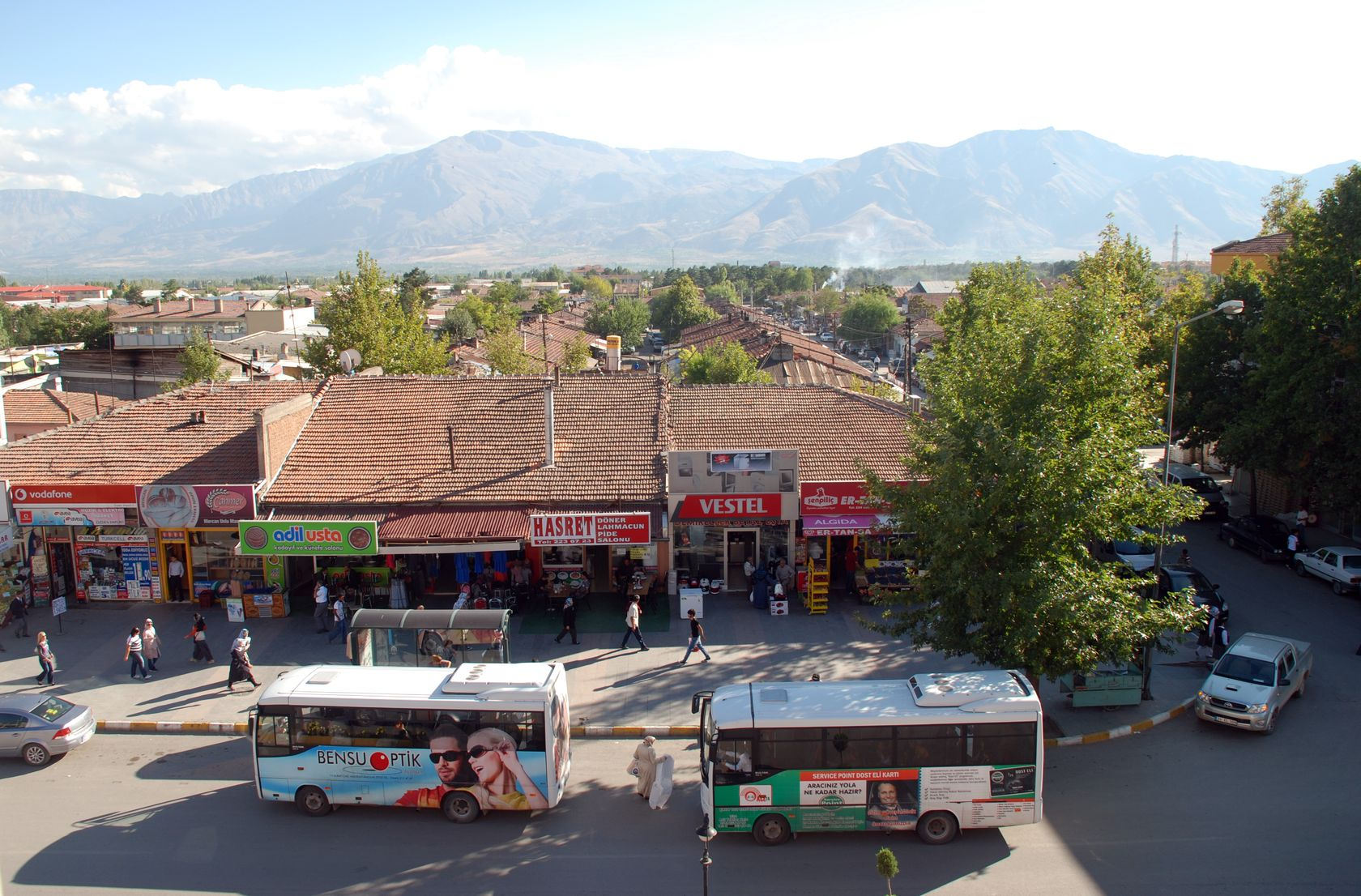 Erzincan, Turkey, main road